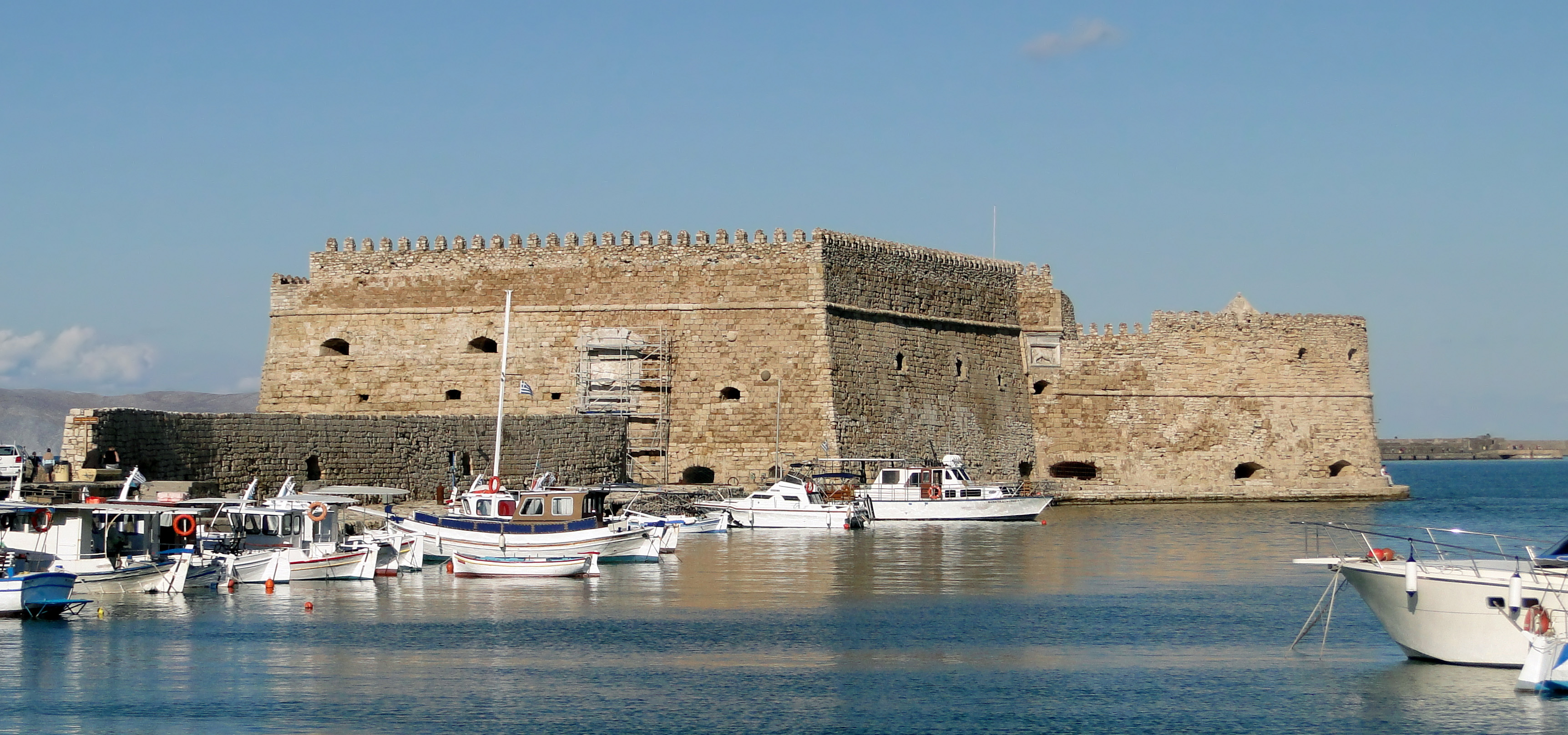 Venitian Fortress of Koules, Heraklion, Crete, Greece